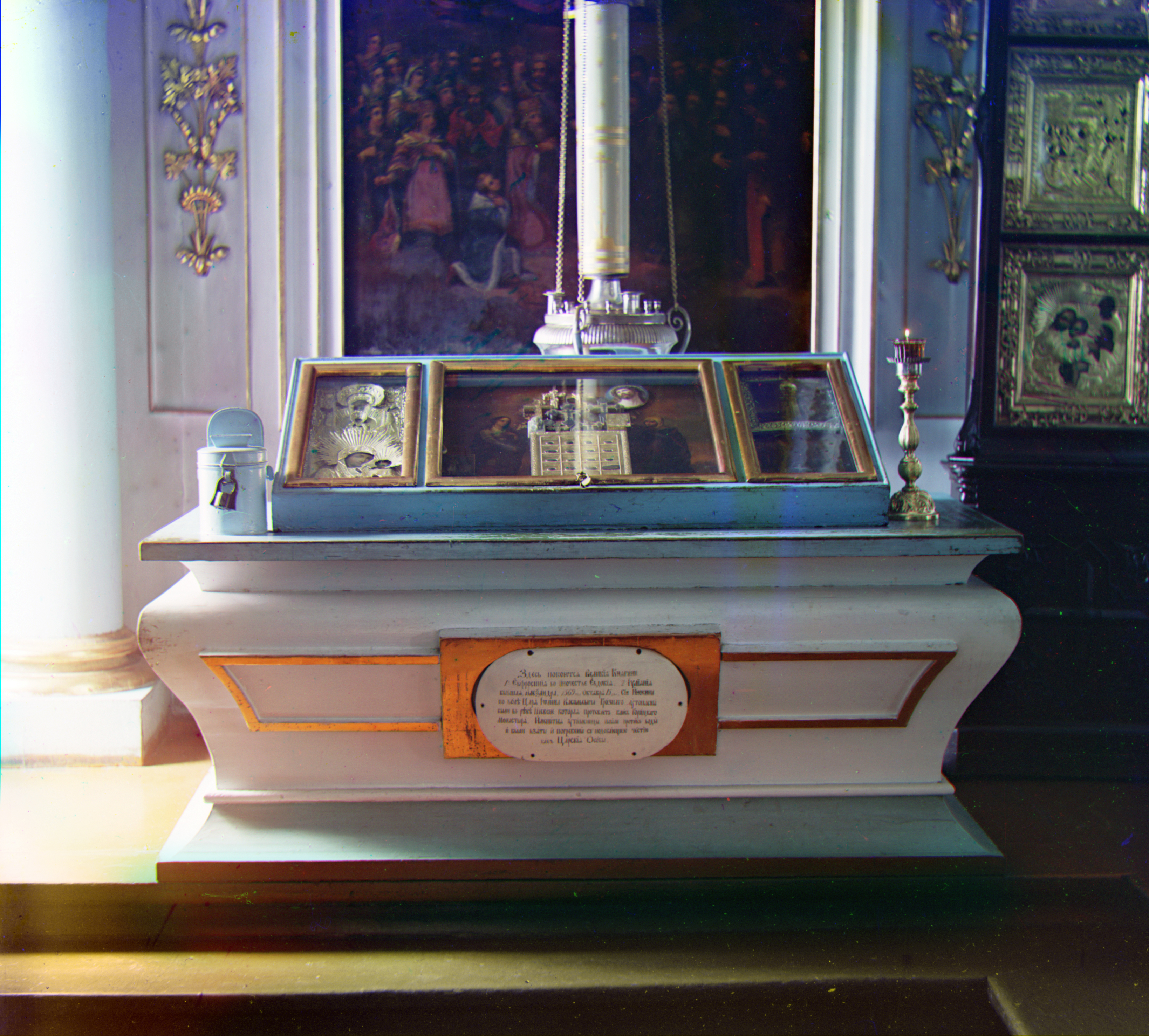 Site where the relics of Grand Duchesses Evfrosiniia and Evdokiia are intered. (Goritskii Monastery, Russian Empire)